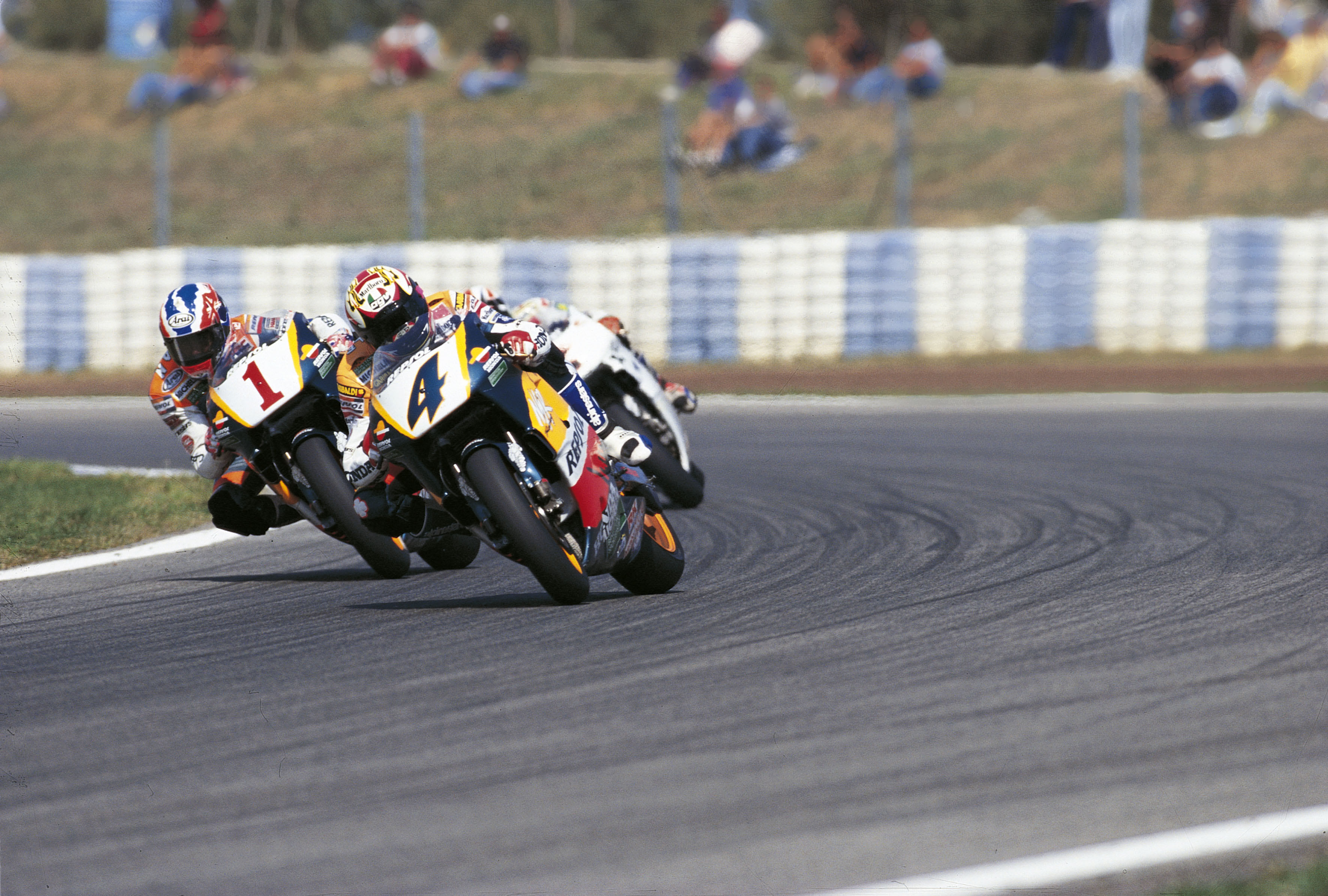 Alex Crivillé (4) and Mick Doohan (1) push hard at the Catalan Grand Prix. It was not enough: The win was eventually for Carlos Checa.